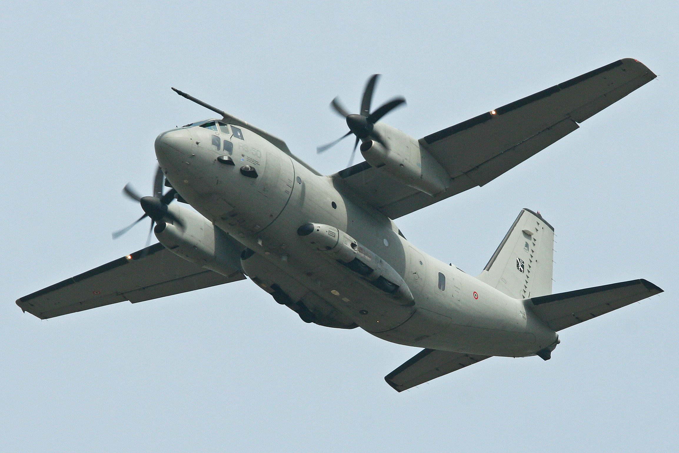 Operated by RSV / 311 Gruppo, Italian Air Force. c/n 4119. Seen departing the 2013 RIAT at RAF Fairford. 22-7-2013